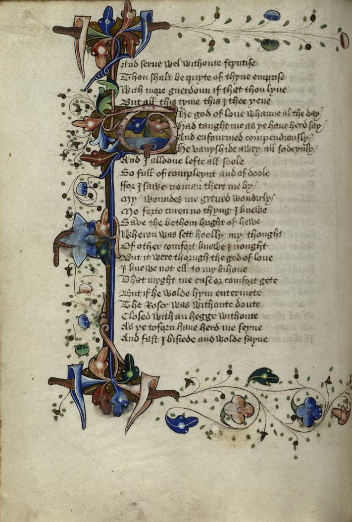 A page from Chaucer's The Romaunt of the Rose. Copy c.1440 (page folio 57v) MS Hunter 409 (V.3.7)